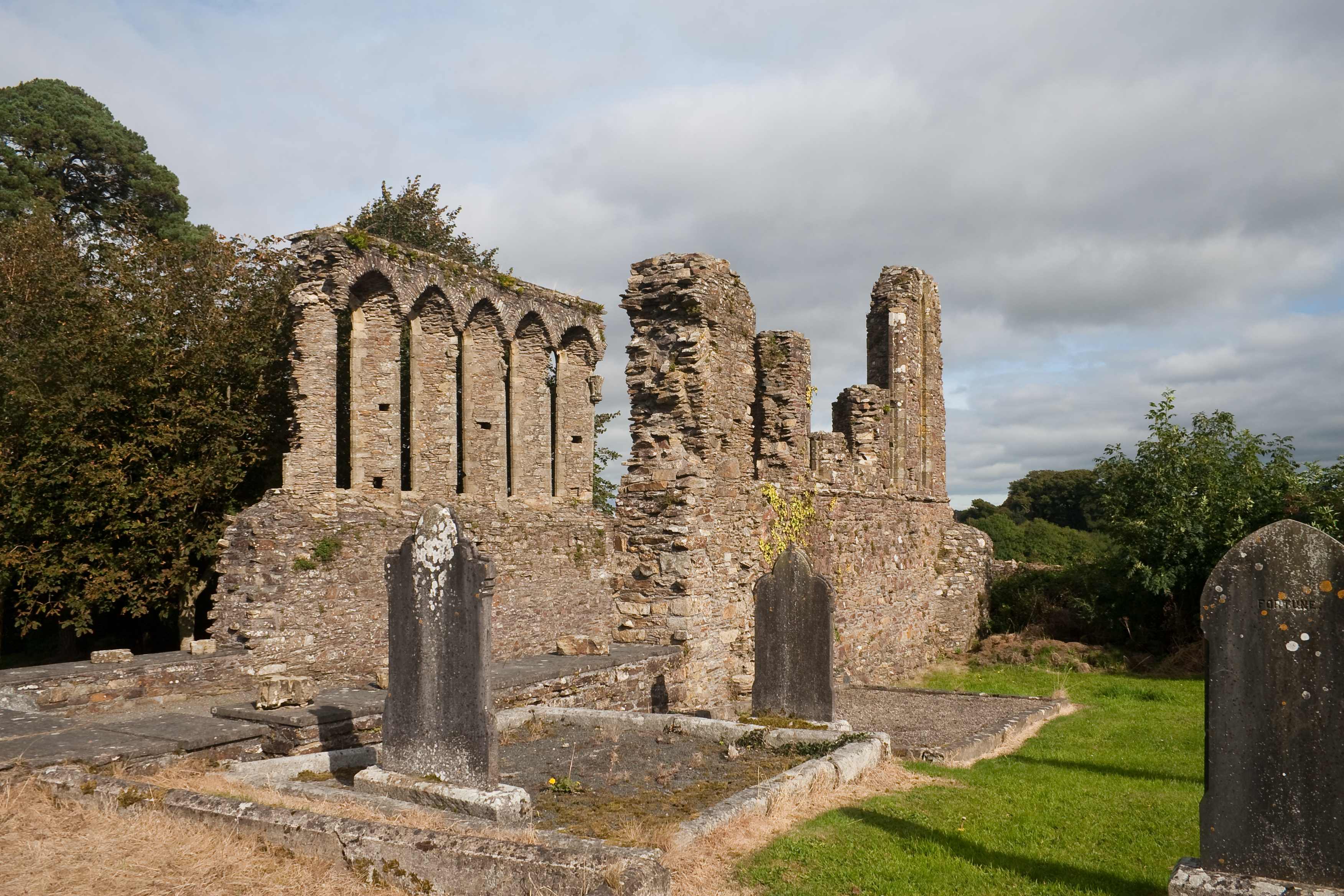 Ferns, County Wexford, Ireland Ruins of the 13th-century chancel of Ferns cathedral.